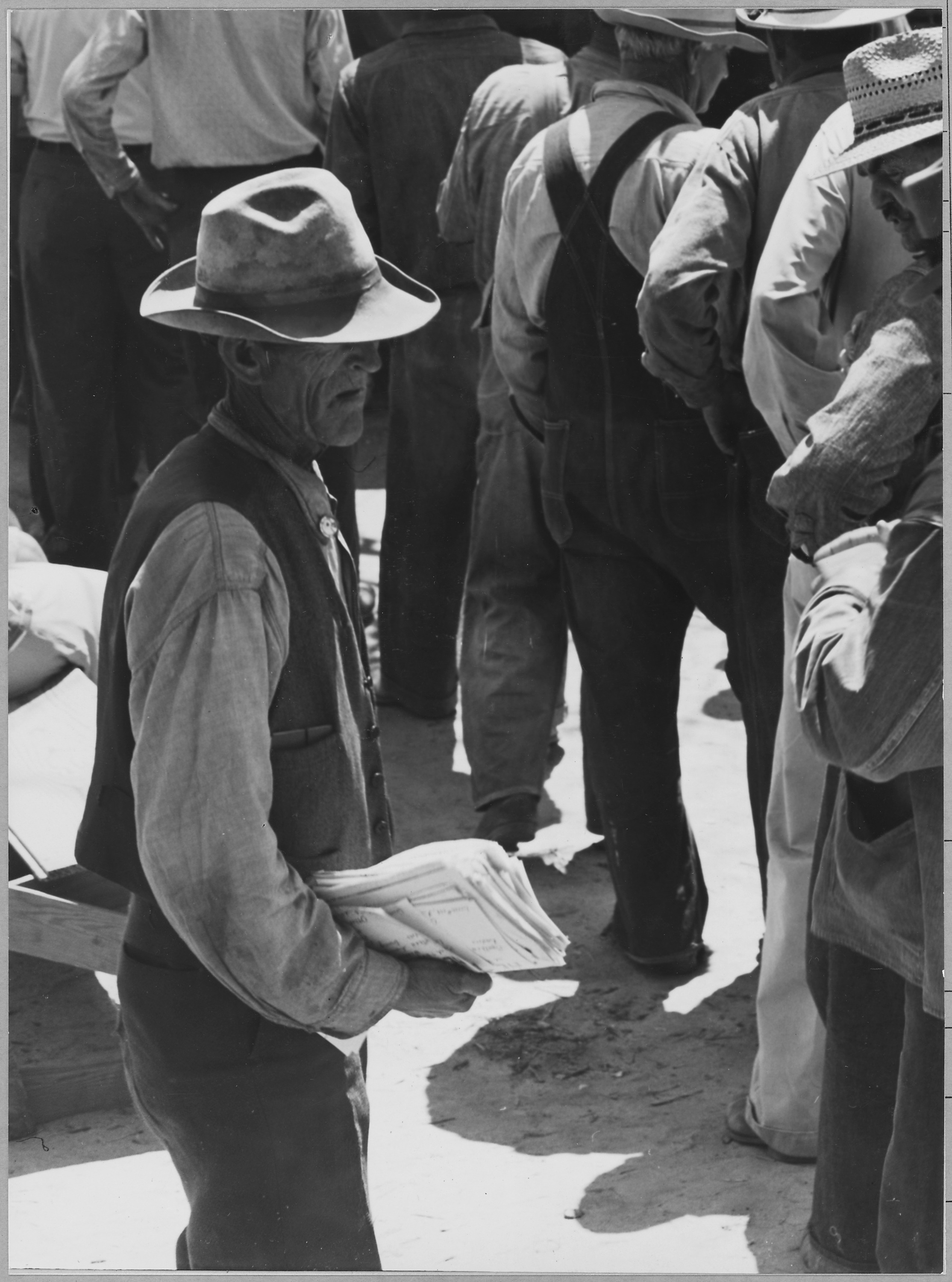 Scope and content: Full caption reads as follows: Arvin, Kern County, California. ... Close-up of relief queue on S.R.A. pay day. Man in foreground is distributing literature advertising pie supper - an attempt to raise funds for the Agricultural Workers Union.